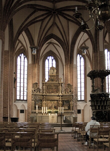 Altar at the St. Nikolaikirche in Berlin-Spandau